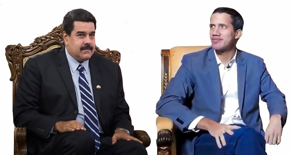 Maduro and Guaidó seated